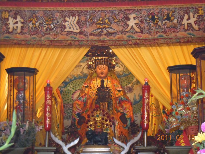 Qingan Temple, Xigang District, Tainan.中文（台灣）: 位在臺南市西港慶安宮。